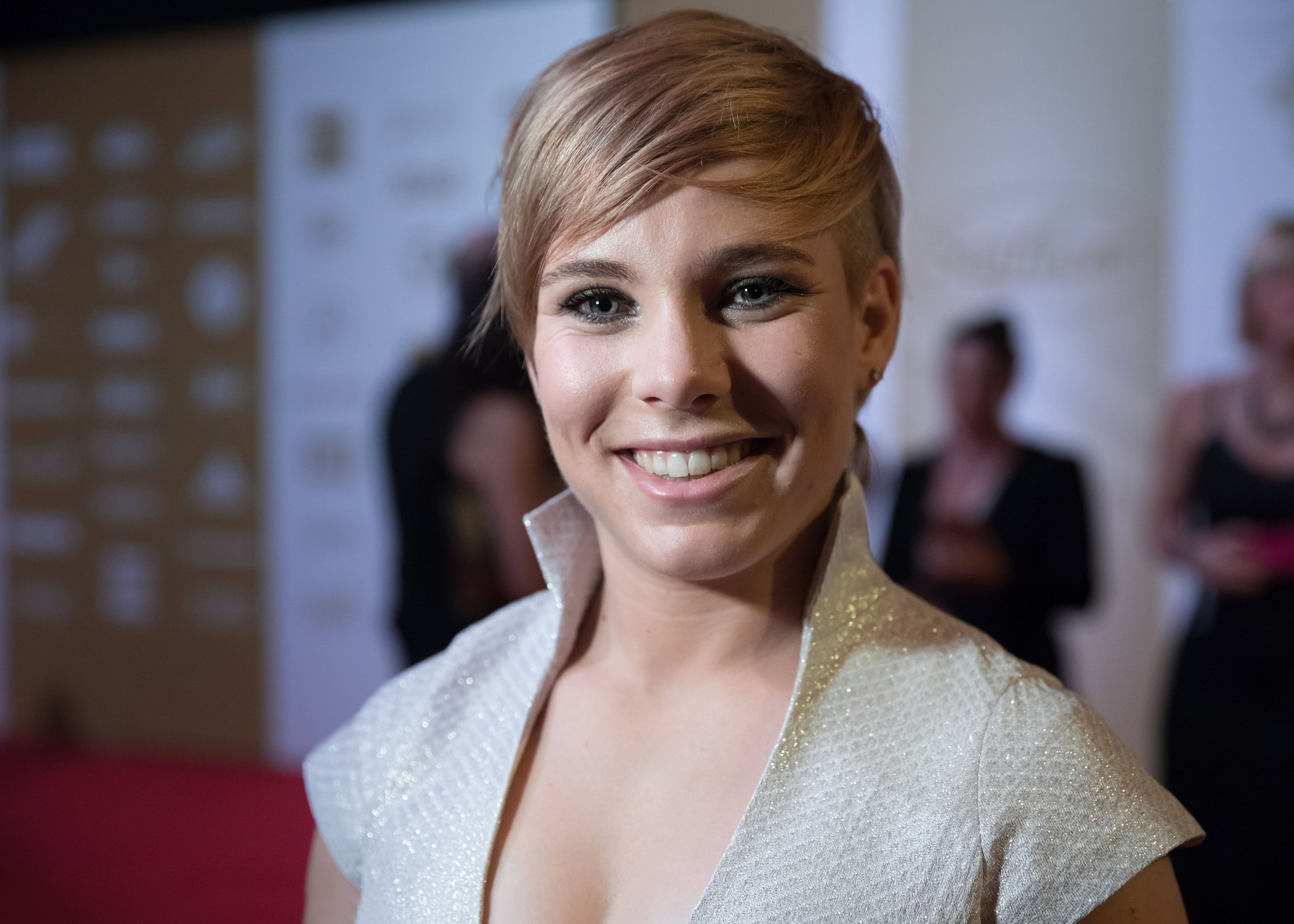 Nicole Schmidhofer, nominee for Austrian Sports Personality of the Year 2017, at Marx Halle (Sankt Marx, Vienna, Austria).